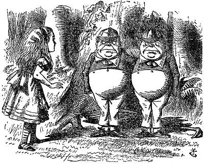 Tenniel illustration of Tweedledum (centre) and Tweedledee (right) and Alice (left).